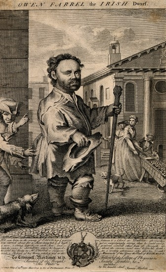 Owen Farrell, a dwarf. Engraving by J. Hulett, 1742, after H. Gravelot.